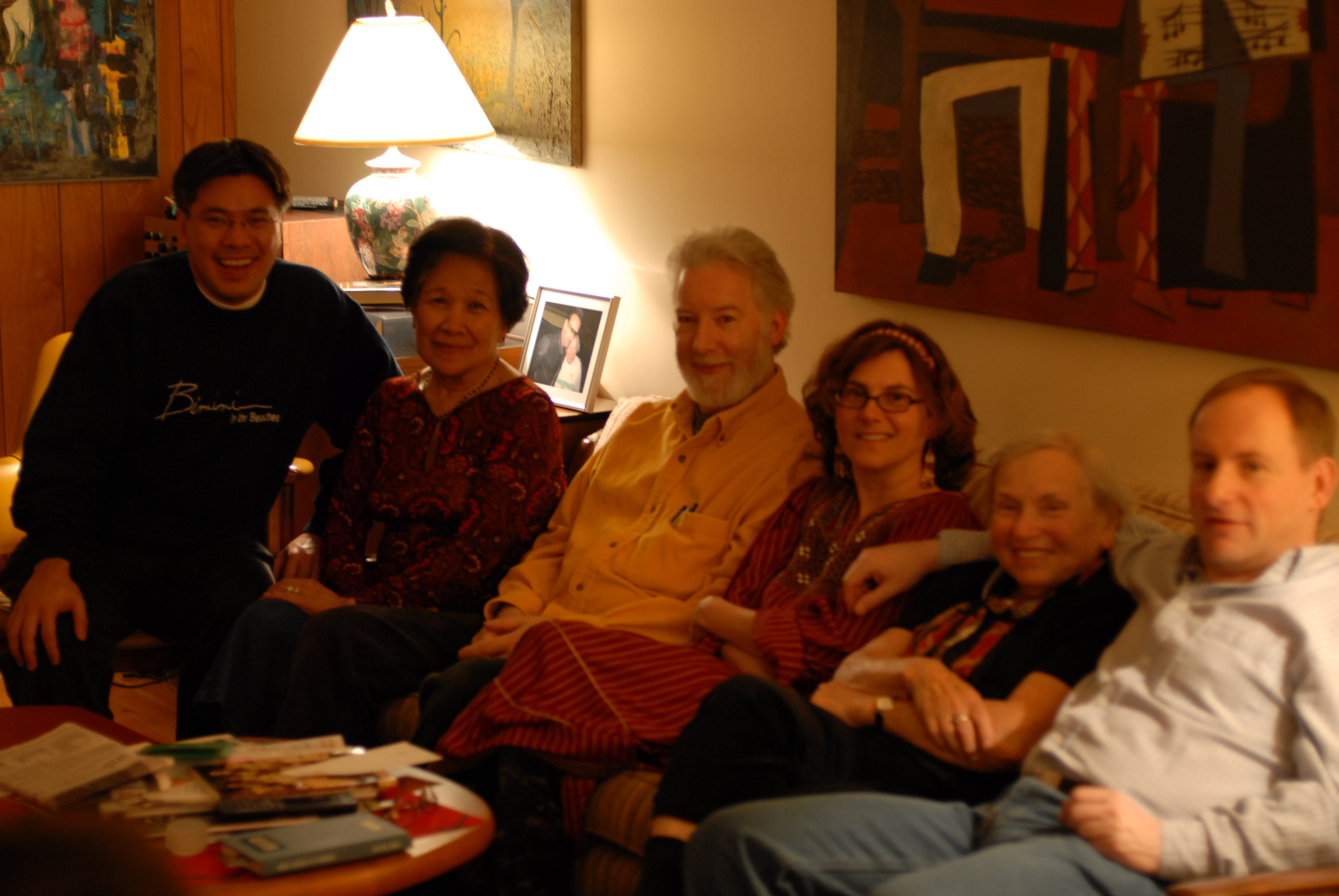 The family of Dorothy Stowe (2nd from right), wife of Irving Stowe. Dorothy and Irving Stowe were two of the key original founders of Greenpeace. Her home (where this photo was taken) was where all the Greenpeace organizing was done during the formative first years. Her son-in-law Joe is a fantastic artist who's sculpture is featured at the front of the downtown Vancouver Public Library. (Chronology of Time, I believe). In this photograph, she is flanked by her son and daughter.